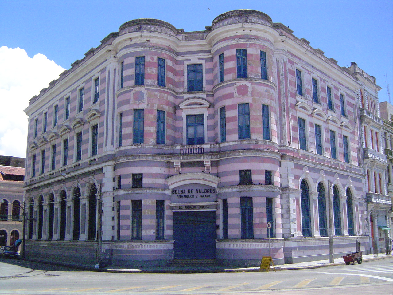 Pernambuco and Paraíba Stock Exchange